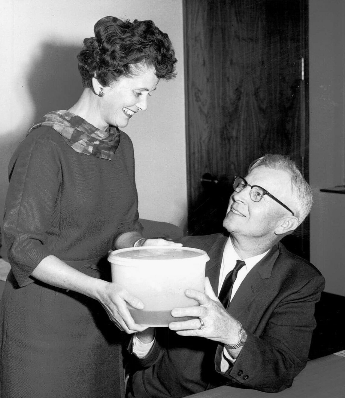 1963 Press Photo Business Douglass North Wife Fred Mccoy Seattle League 8X10